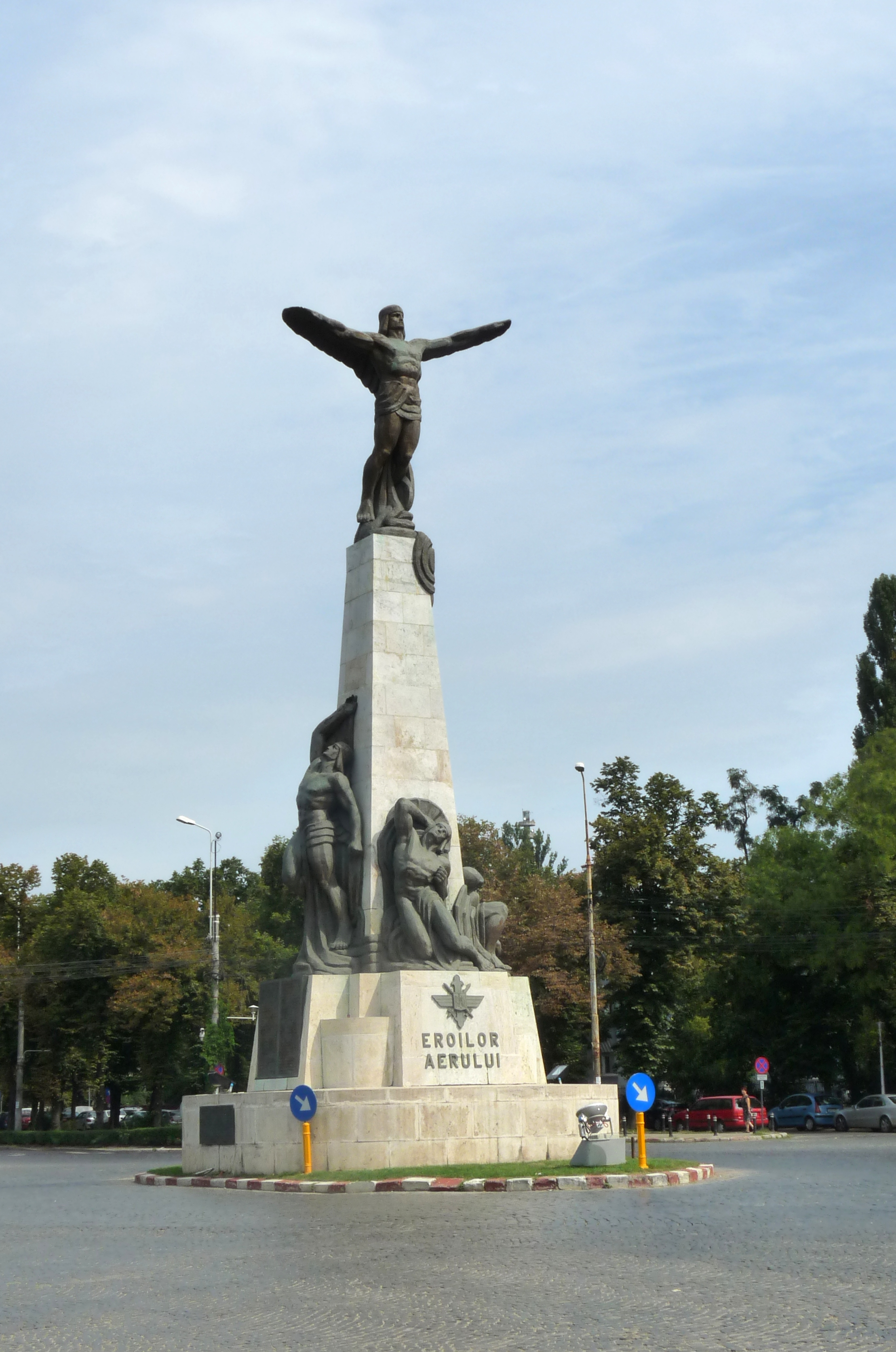 Air heroes' monument in Bucharest, Romania